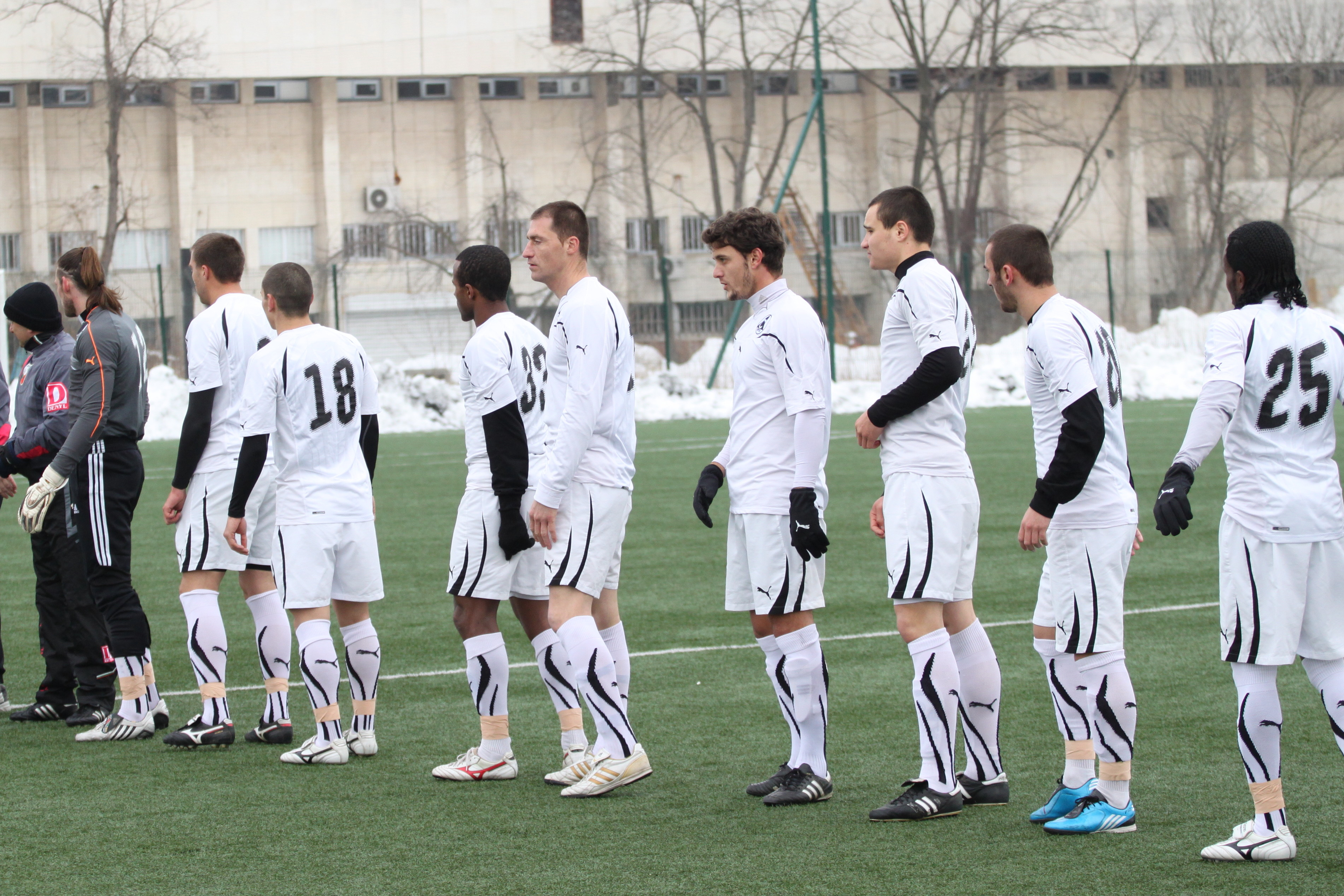 Slavia Sofia